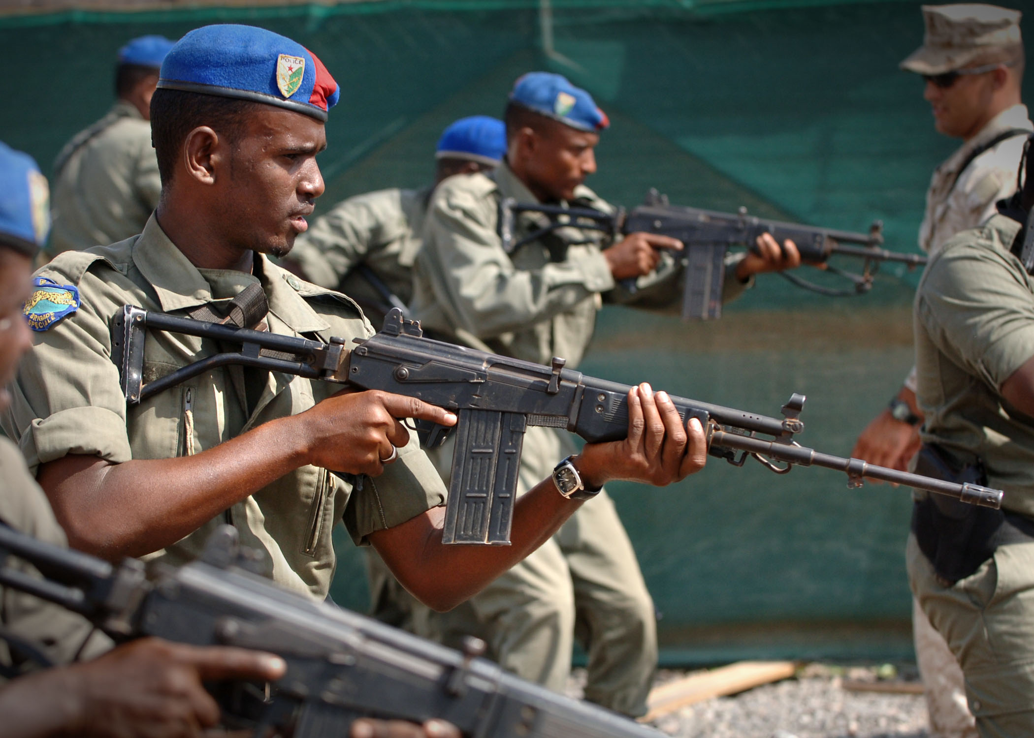 061221-N-1328C-156 Camp Lemonier, Djibouti (December 21, 2006) - Abjubaker Hassan Hanifa, a member of the special brigade of the Djiboutian national police, practices charging with his rifle during a three-day training on a range of topics from basic weapons procedures to room clearing. The brigade is in charge of security of the U.S. Embassy in Djibouti. The instructors are currently deployed to the 5th Provisional Security Company that is responsible for the security at Camp Lemonier, home of the Combined Joint Task Force - Horn of Africa.)